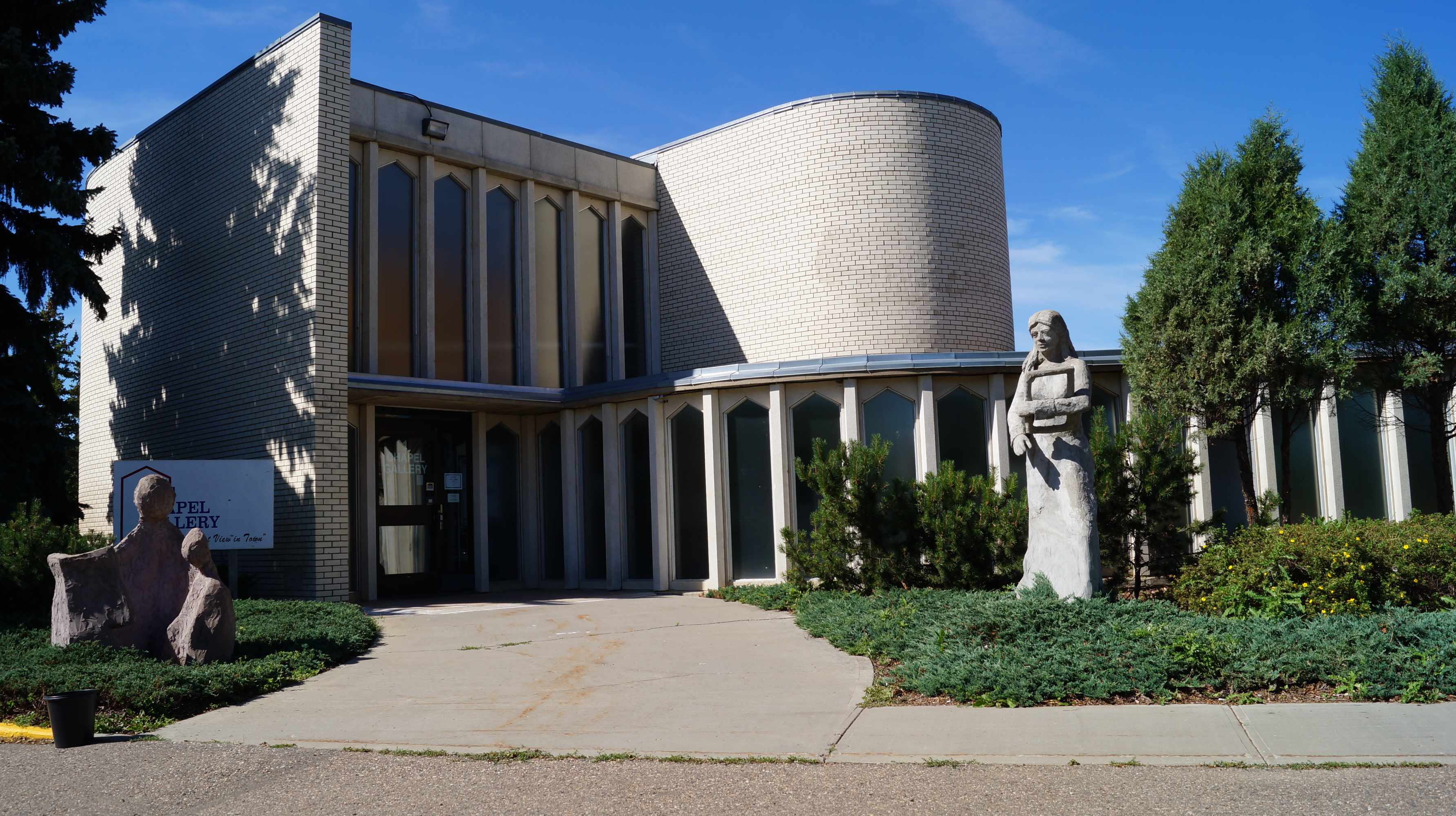 Front view of the Chapel Gallery, in North Battleford